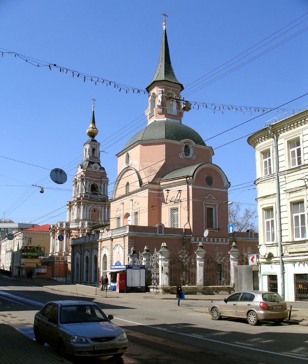 Church of St.Peter and Paul, Novaya Basmannaya Street, Moscow, Russia. Built in 1705-1723, allegedly to a drawing by Tsar Peter I.